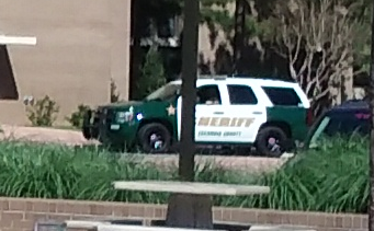 An Escambia County Sheriff Officer seen patrolling Pensacola Christian College's campus. Derived from File:PCC Area Outside of Commons.jpg, which was also my own work.